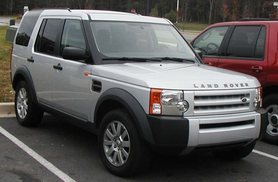 2007 Land Rover LR3 photographed in Accokeek, Maryland, USA.